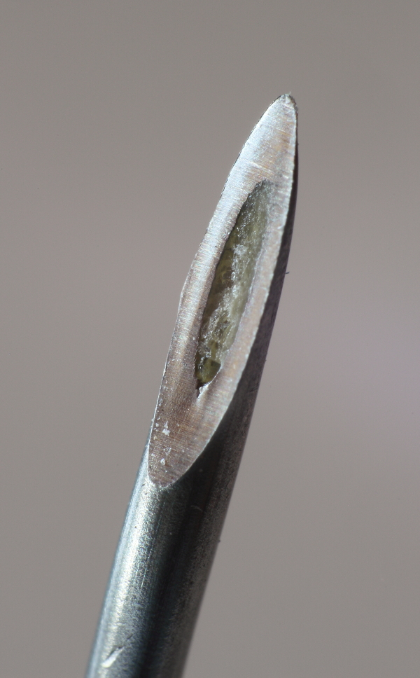 Macro shot of a diagonal cut piece of solder (S-Sn60Pb39Cu1) with flux core. Diameter of the solder: 1mm